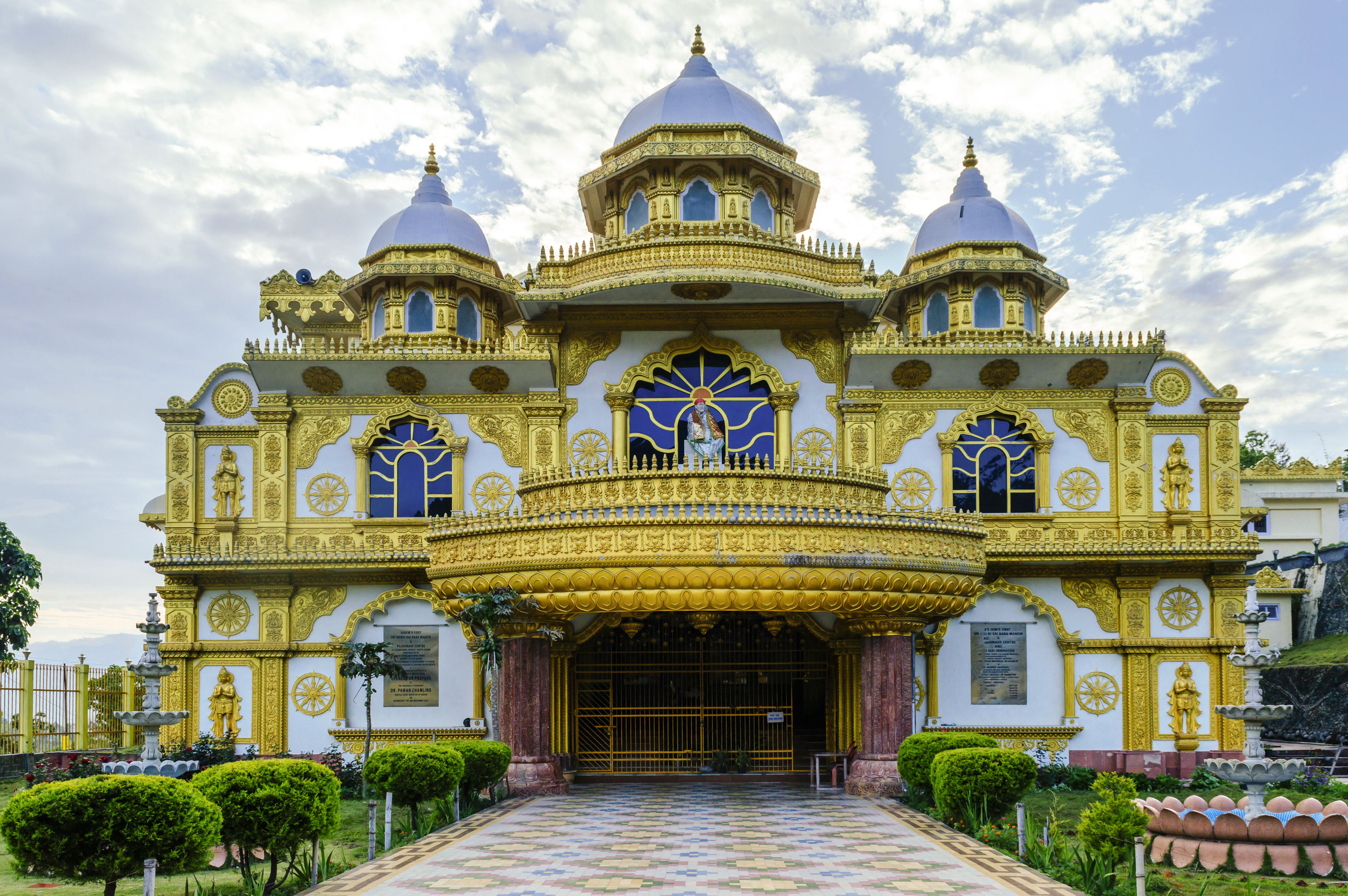 Sai Temple in Namchi, Sikkim